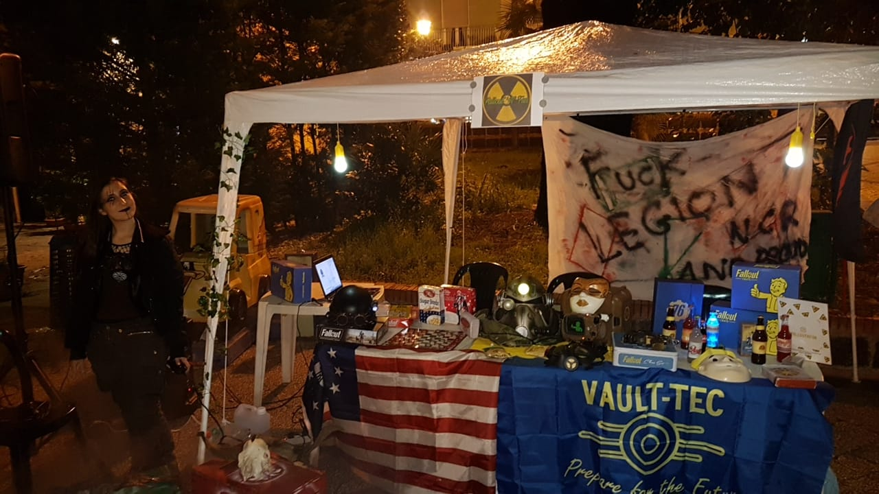 A Fallout Cosplayer photographed during a comic-con at Villa Carrara, Salerno